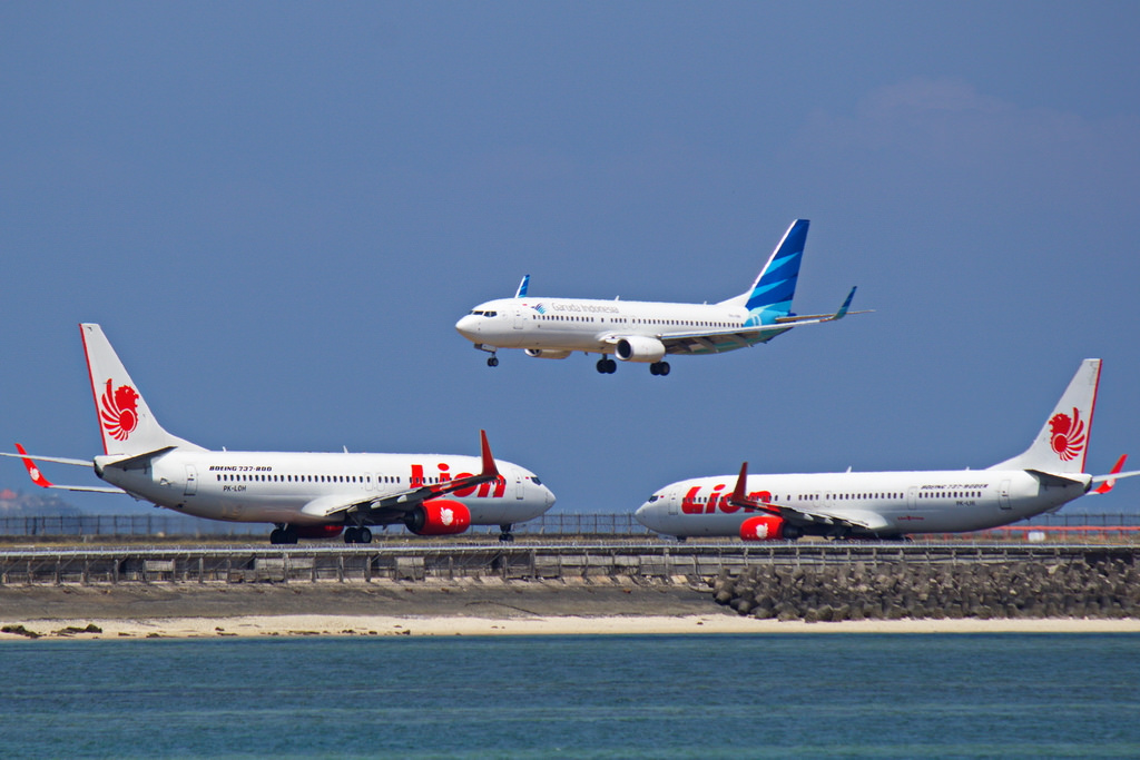 3-in-1 of 737 Next Generation's Family From left to right : Boeing 737-800 Lion Air leaving for Makassar UPG as JT746, Boeing 737-800 Garuda Indonesia arriving from Perth PER as GA727, and Boeing 737-900/ER Lion Air leaving for Jakarta CGK as JT17.